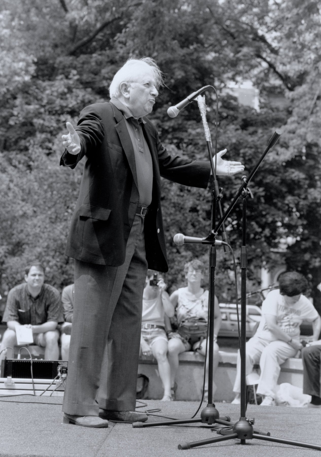 Studs Terkel, an avid chronicler of 20th-century life in Chicago, participated in the earliest Bughouse Square Debates in the 1980s and 1990s.